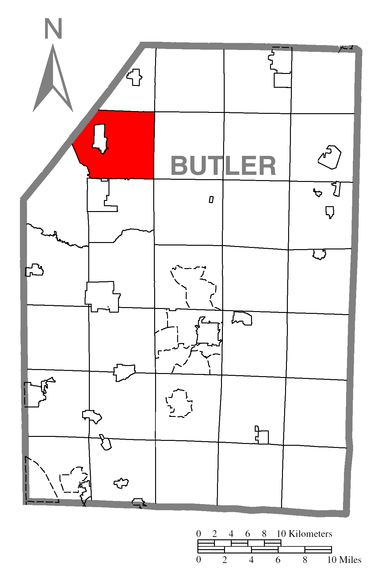 A map of Butler County showing Slippery Rock Township, Pennsylvania (alternate) highlighted on the map.